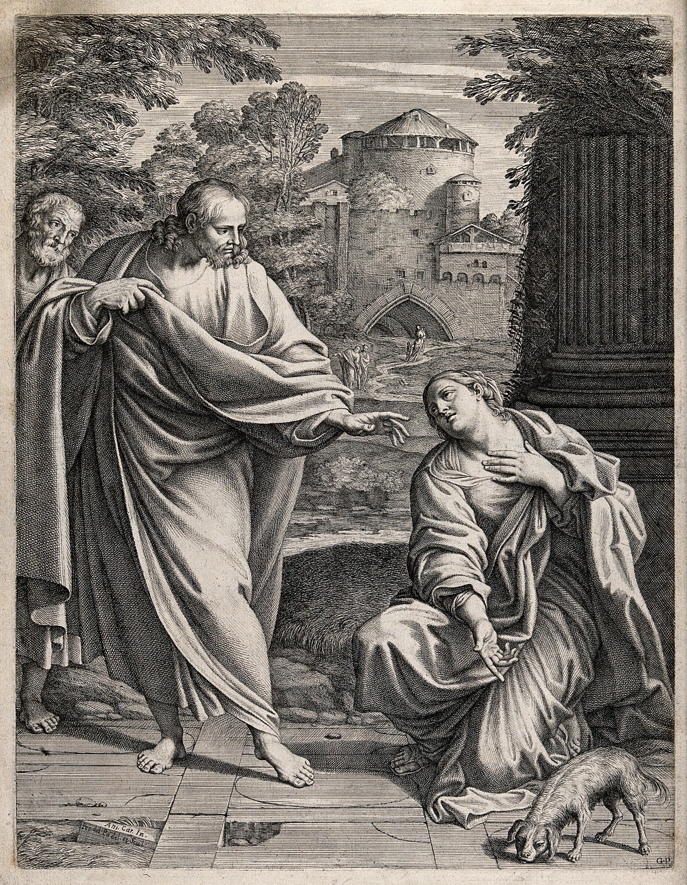 The Canaanite (or Syrophoenician) woman asks Christ to cure her possessed daughter; she points to a dog, to which she compares herself. Etching by P. del Po after Annibale Carracci. Iconographic Collections Keywords: Jesus Christ; Pietro del Po; Annibale Carracci